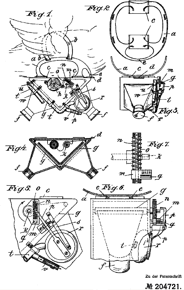 Detailed sketches of breast-mounted carrier pigeon camera with two lenses, invented by Julius Neubronner.